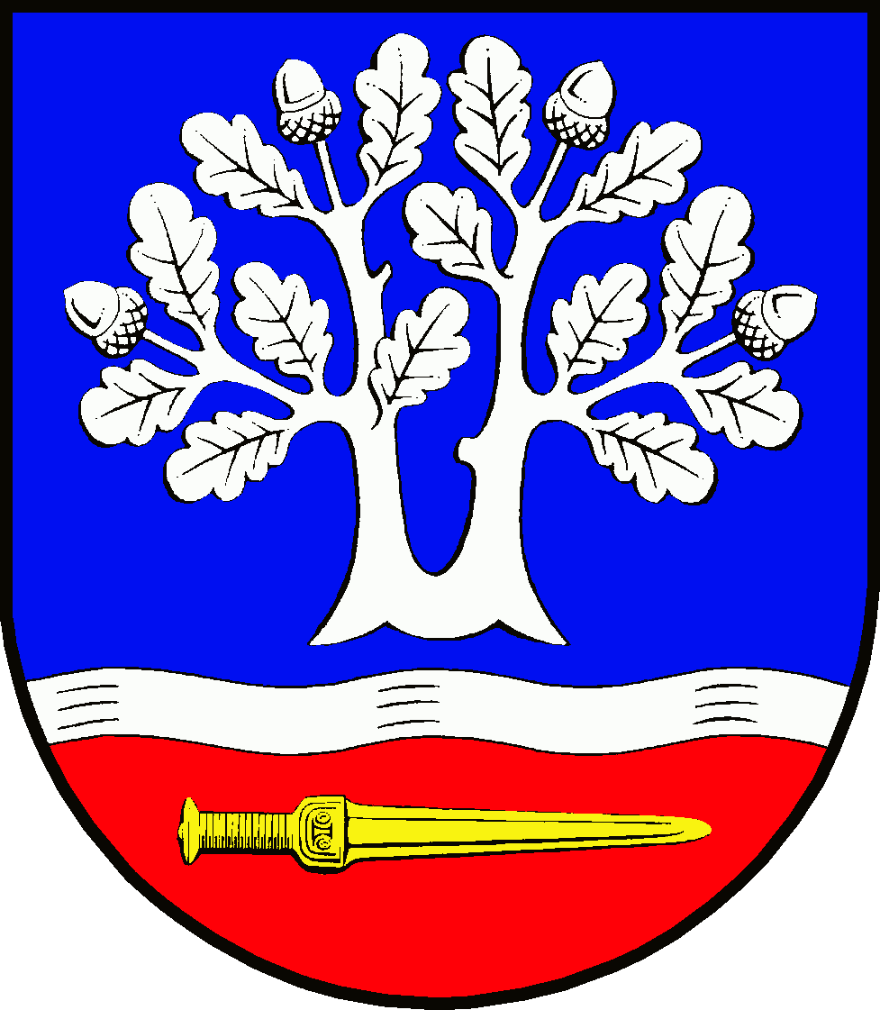 Coat of arms of the municipality Looft in Schleswig-Holstein, Germany.